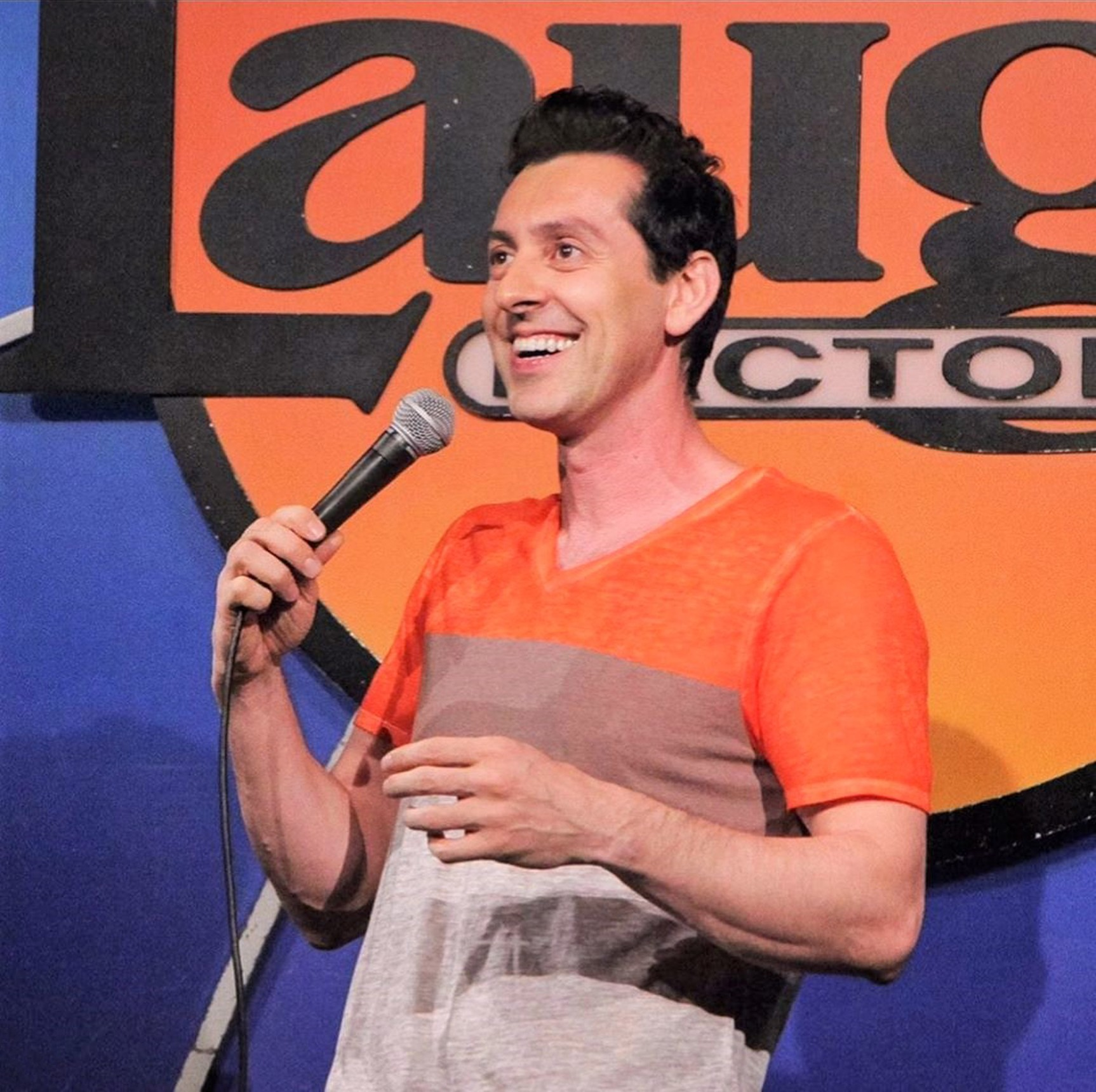 6 May 2020, Max Amini